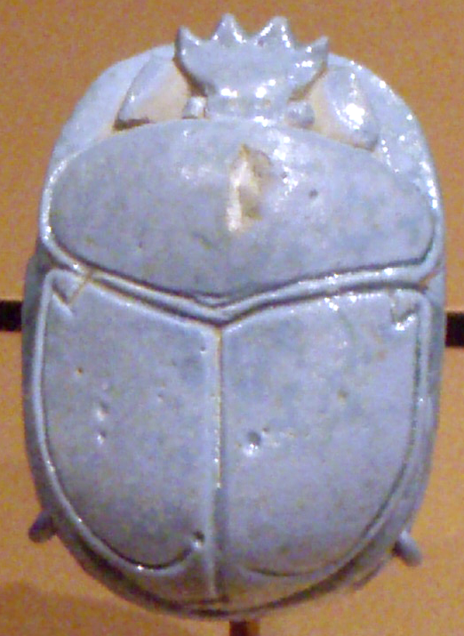 So called "Marriage Scarab", whose obverse lists the pharaoh Amunhotep III's full titles and those of his wife Queen Tiye, and her parent's names.